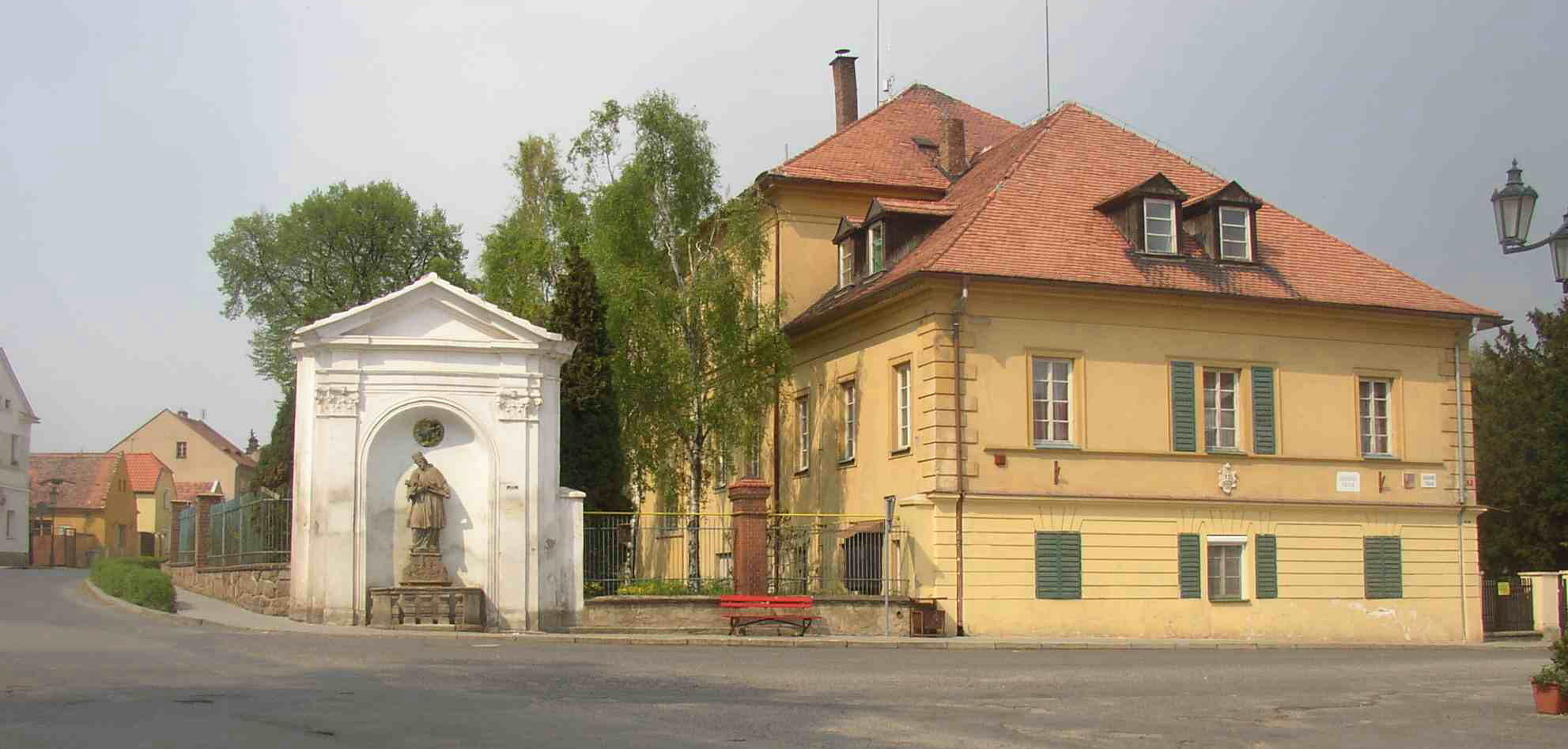 Chapel of St John Nepomucene and side view of manor house (today a school) in Třebívlice, Czech Republic.